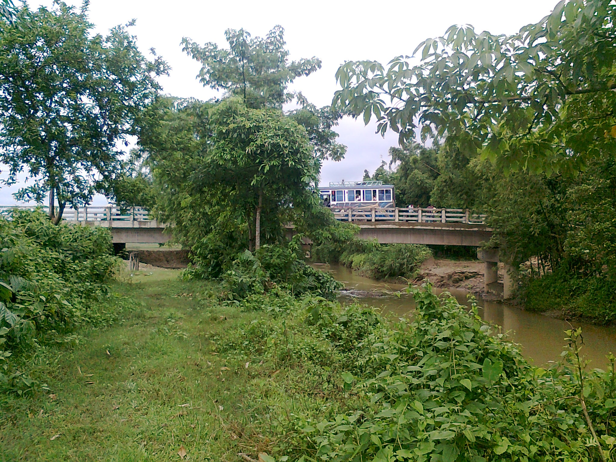 Fatikchari bridge, Chittagong